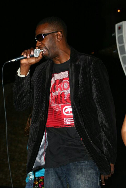 Nando boom